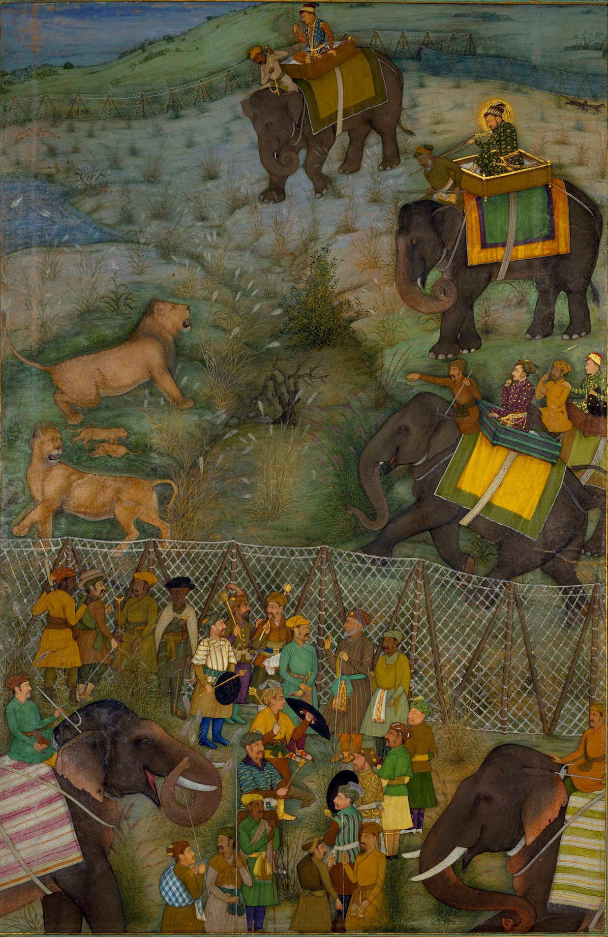 Illustrations from the 1636 Padshahnama of Shah Jahan showing Moghul Soldier & Civilian Costume. Illustrations to the text of Abdul Hamid Lahori